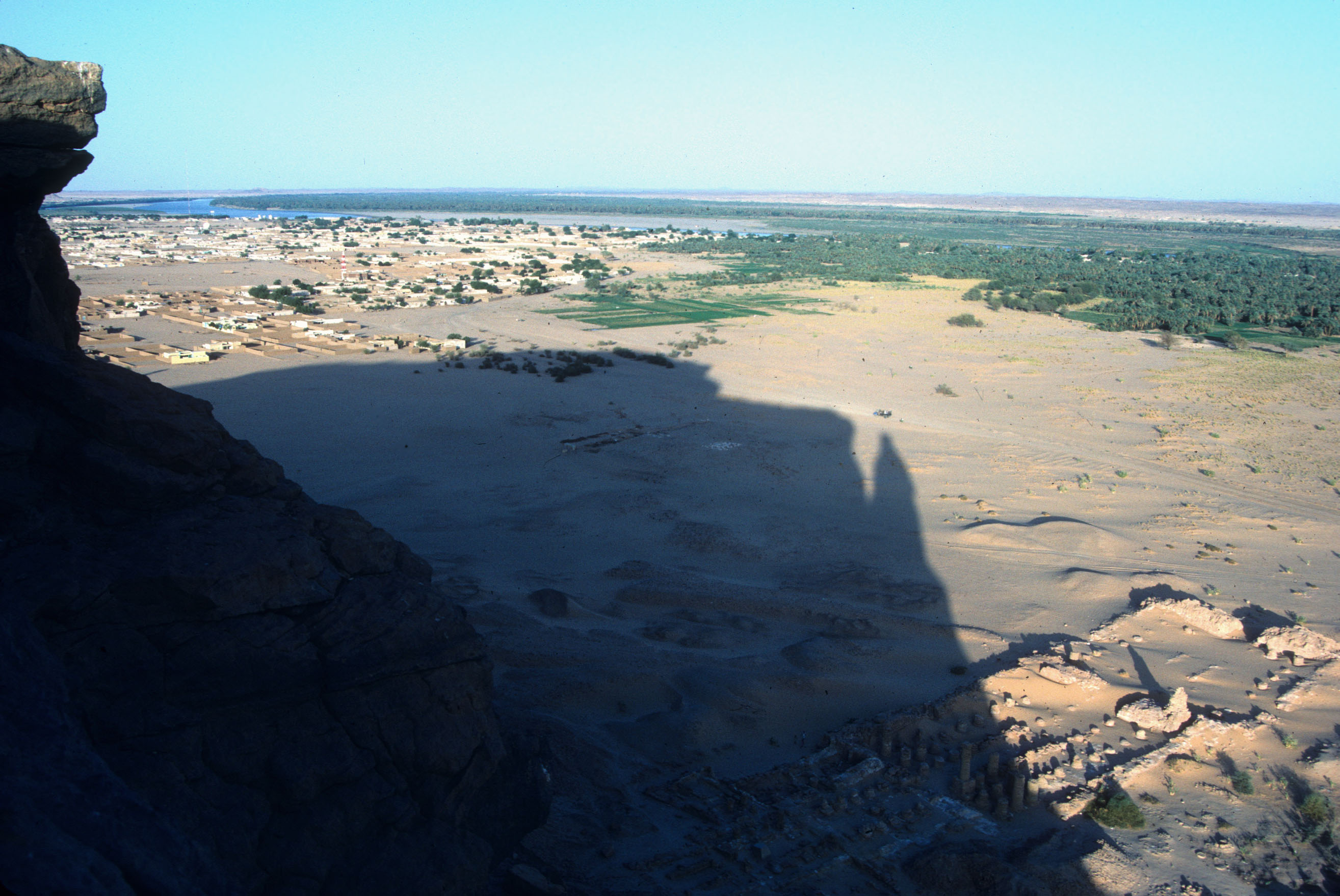 The Temple of Amun at the foot of Jebel Barkal, Karima, Sudan. The Nile flows peacefully through the Nubian Desert.